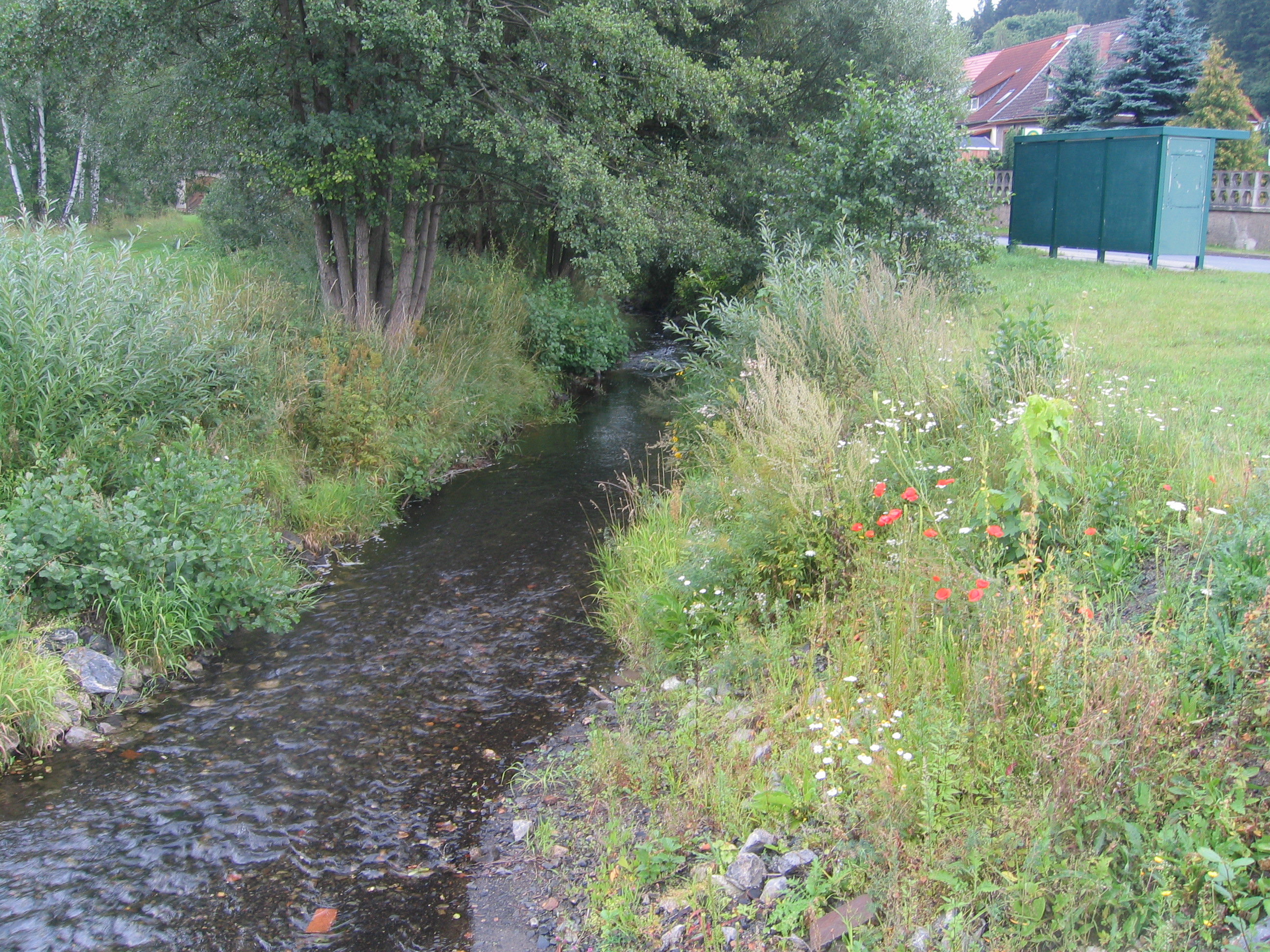 The River Selke at Silberhütte (Harzgerode) just behind the station. Harz Mountains, Saxony-Anhalt, Germany.